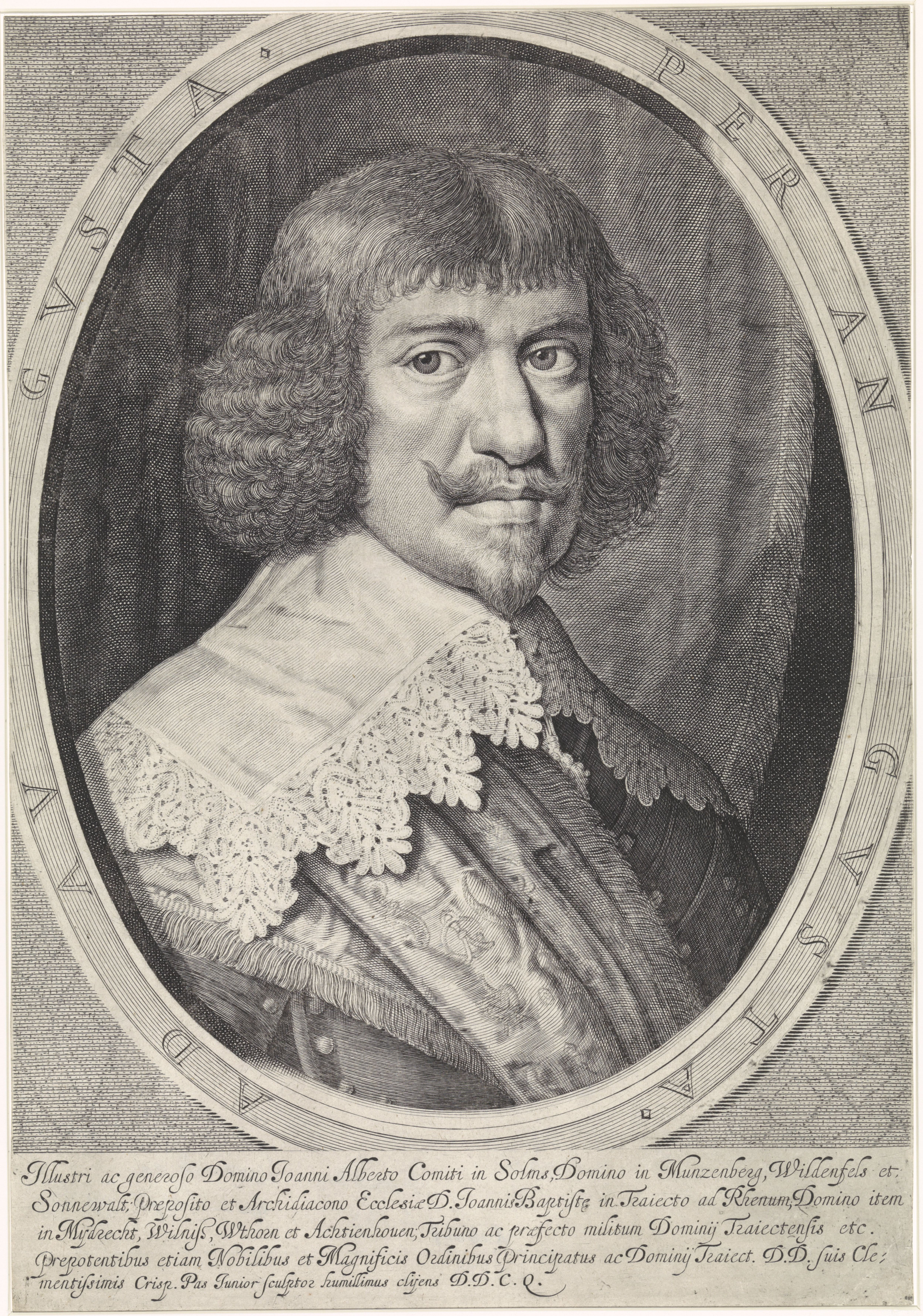 Johan Albert van Solms 1599-1648 military commander of the Dutch army and governor of Utrecht and Maastricht